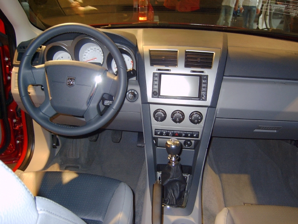 Dodge Avenger Diesel with manual Six-Speed-Trans